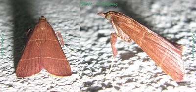 Parachma lequettealis (Pyralidae-Chrysauginae) Taken in Réunion.